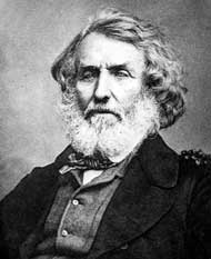 George Everest (19th century photo)